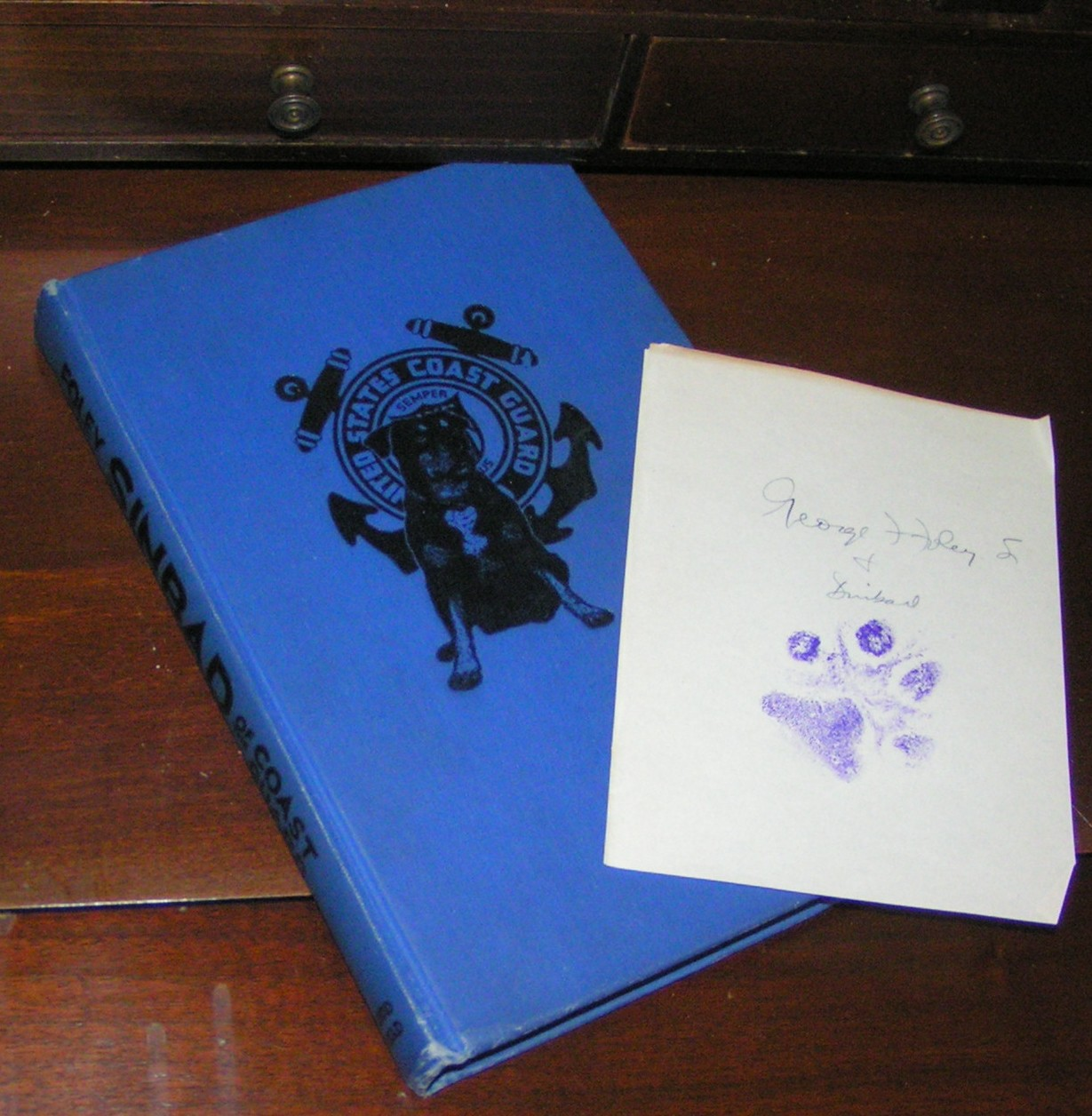 Photo of George F Foley's Sinbad of the Coast Guard (second printing 1946) with autograph by both Foley and Sinbad